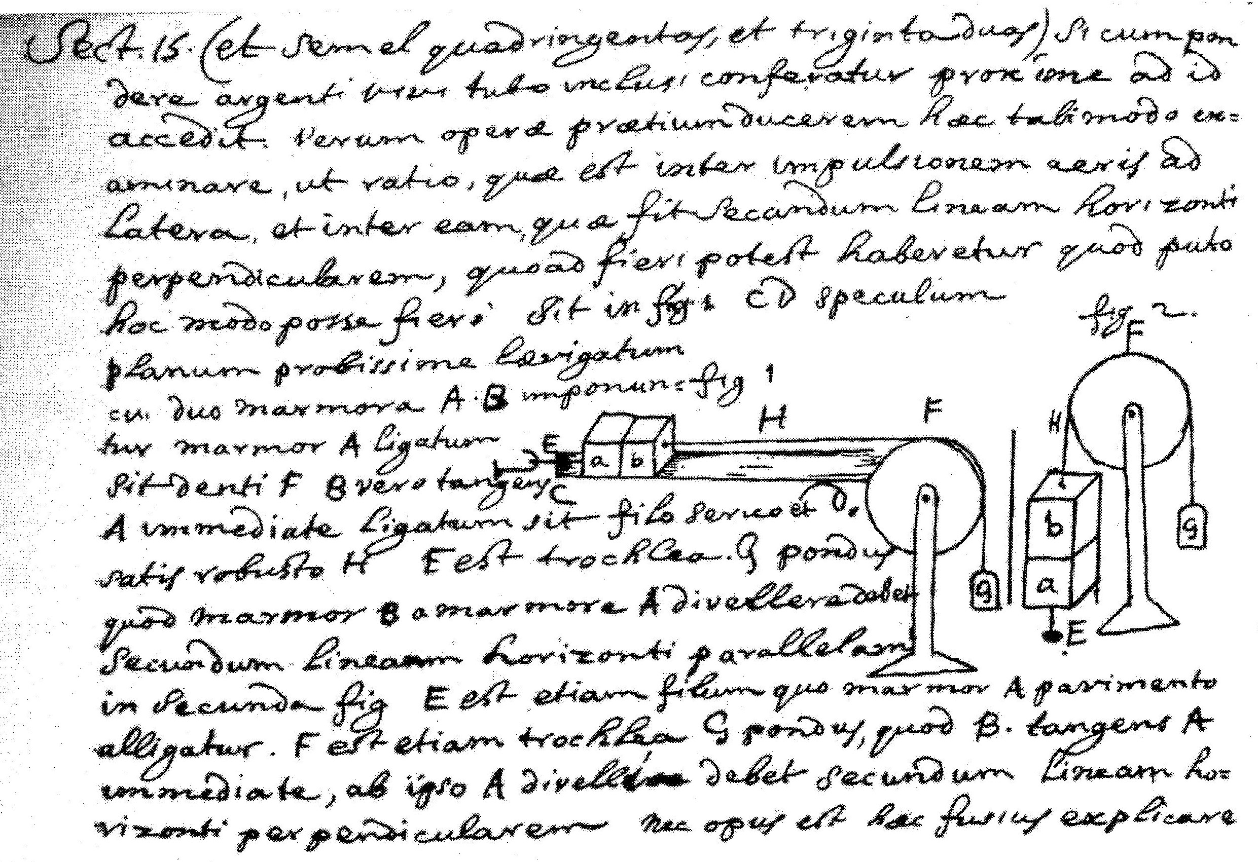 Letter 6 (VI) of late 1661 from Spinoza to Henry Oldenburg about an experiment on the Cartesian laws of motion.